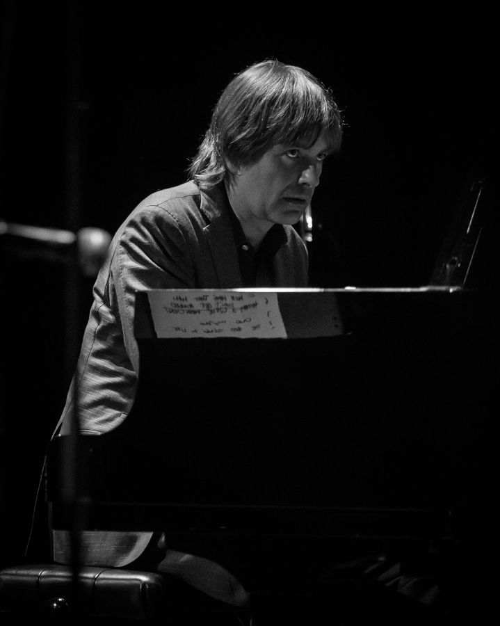 Jan Lundgren performs at Cosmopolite, Oslo in 2015. Lineup: Karin Krog (vocal), Scott Hamilton (tenor saxophone), Jan Lundgren (piano) Hans Backenroth (bass), Kristian Leth (drums)